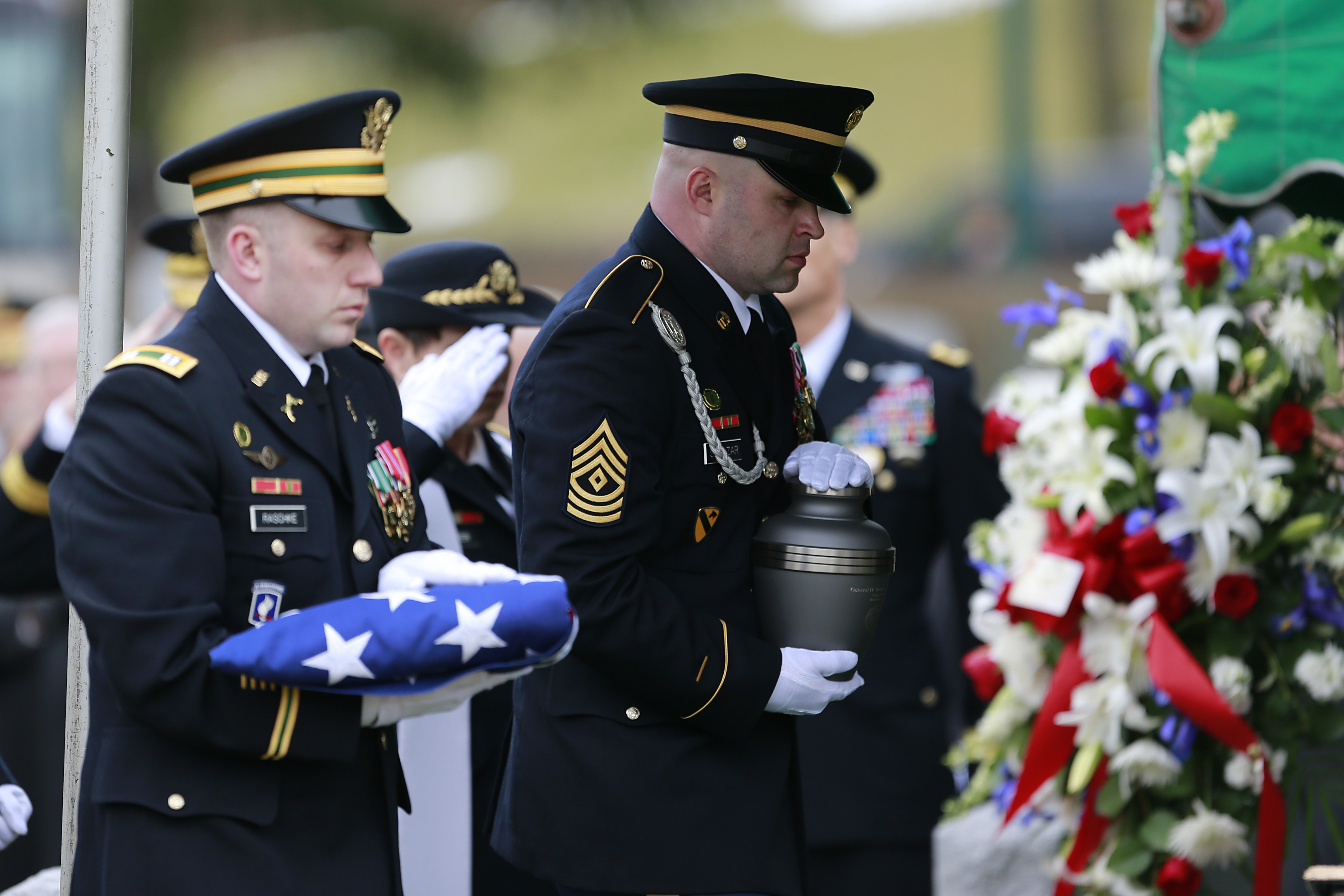 Twenty-two years to the day when Operation Desert Storm ended, the general who commanded that allied ground offensive was laid to rest at West Point, N.Y. A memorial service for retired Gen. H. Norman Schwarzkopf, a U.S. Military Academy Class of 1956 graduate, was held at the Cadet Chapel, Feb. 28, 2013, with family, friends and colleagues in attendance.